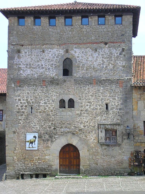 Merino´s Tower, in Santillana del Ma (Cantabria, Spain).